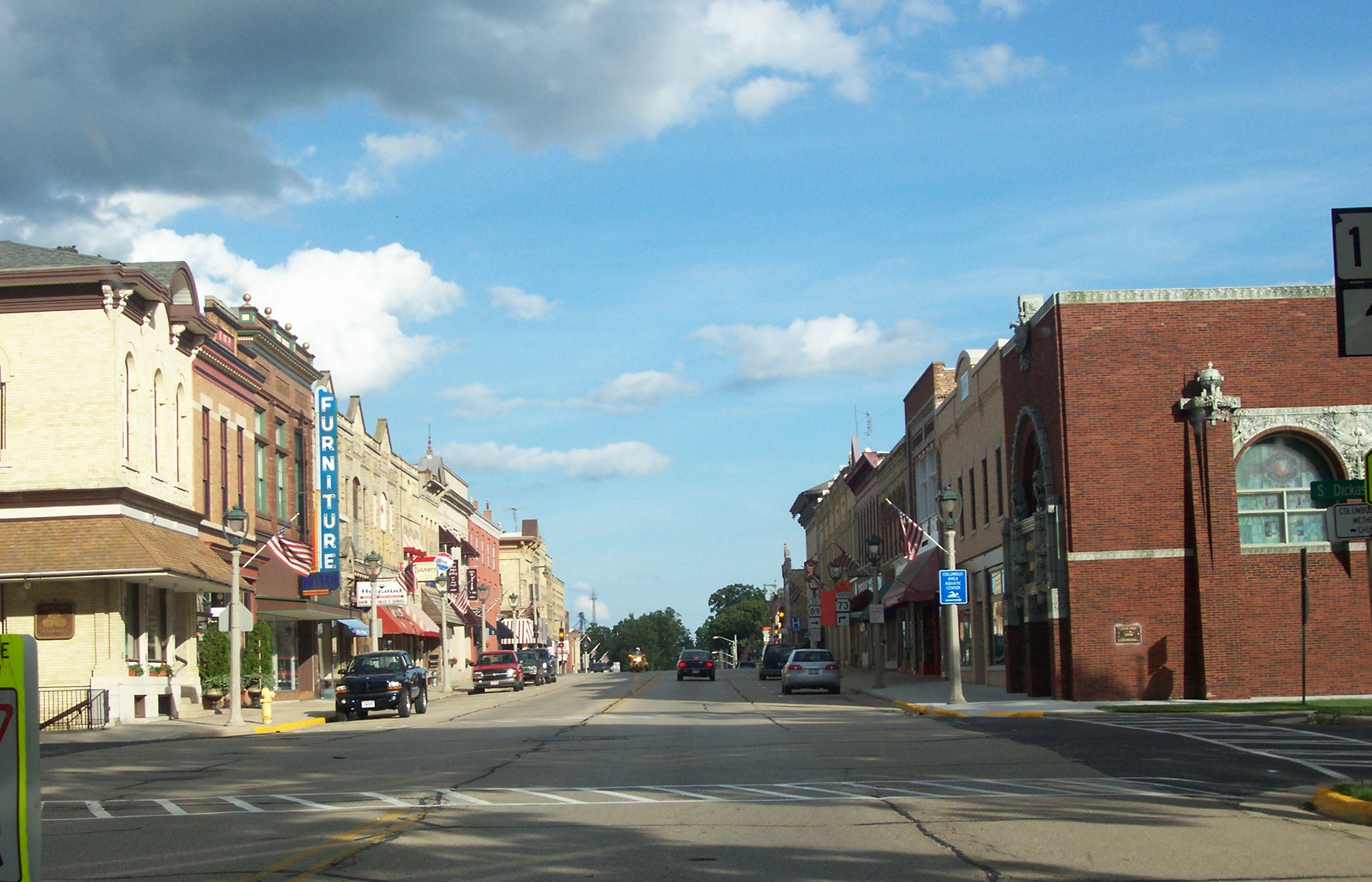 Looking east at downtown Columbus, Wisconsin, USA. Taken while traveling on Wisconsin Highway 60/Wisconsin Highway 16. The buildings are listed on the National Register of Historic Places as the Columbus Downtown Historic District. On March 17, 2008, this area was used to film a scene for the Johnny Depp movie Public Enemies. The darker brown building on the right in the foreground is the Farms & Merchants Union Bank, listed independently on the National Register.